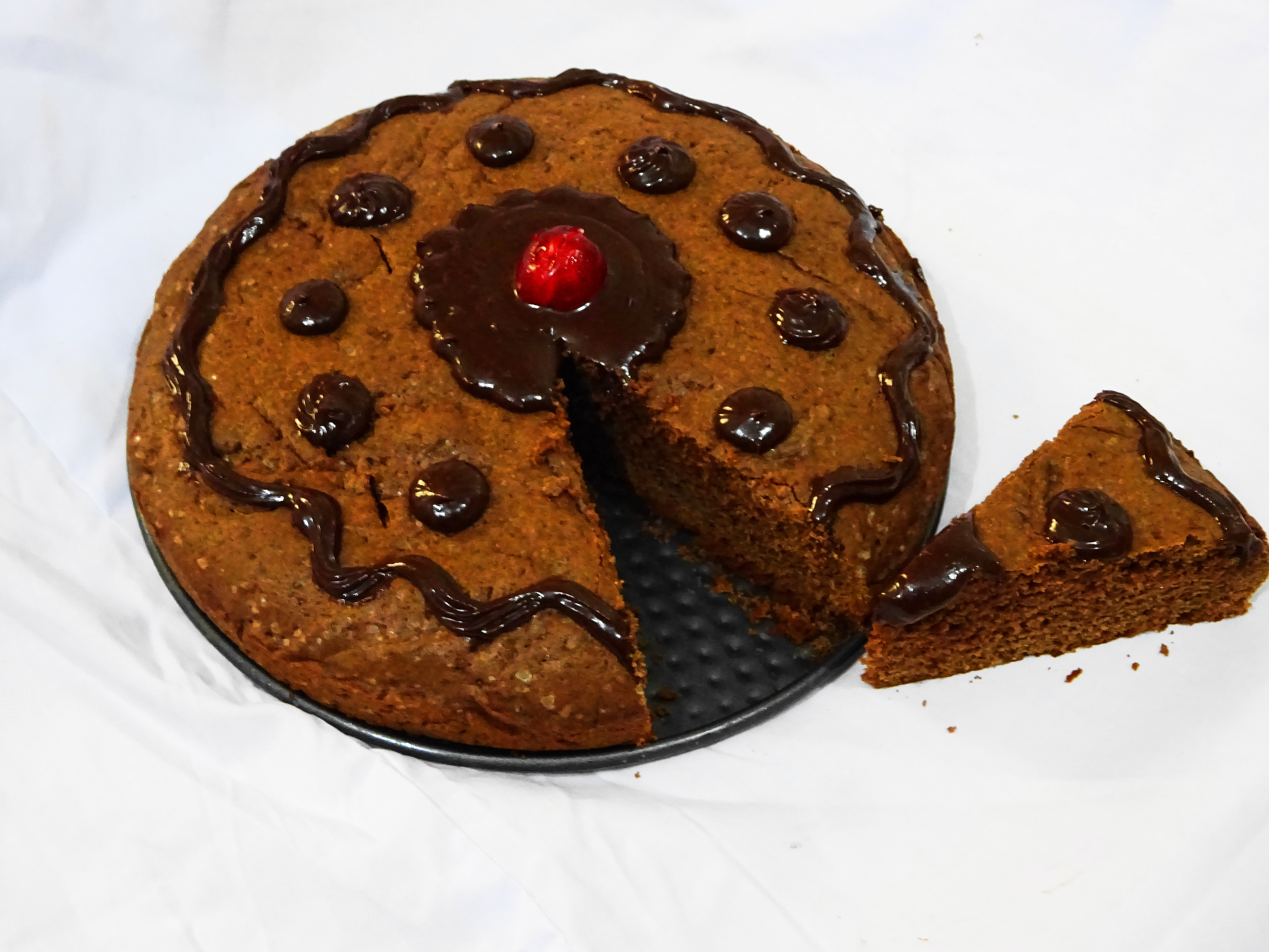 براؤن کیک